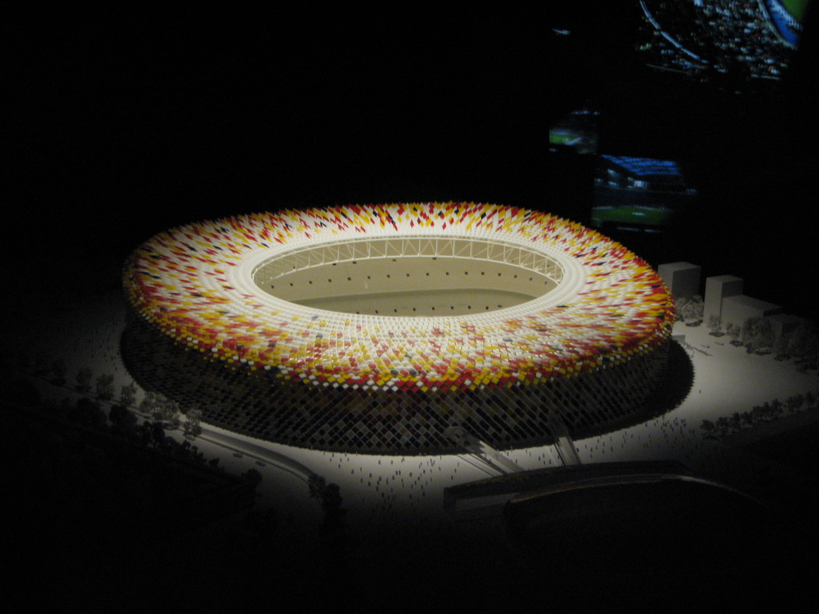 Barcelona. Project of the new Camp Nou, by Norman Foster.